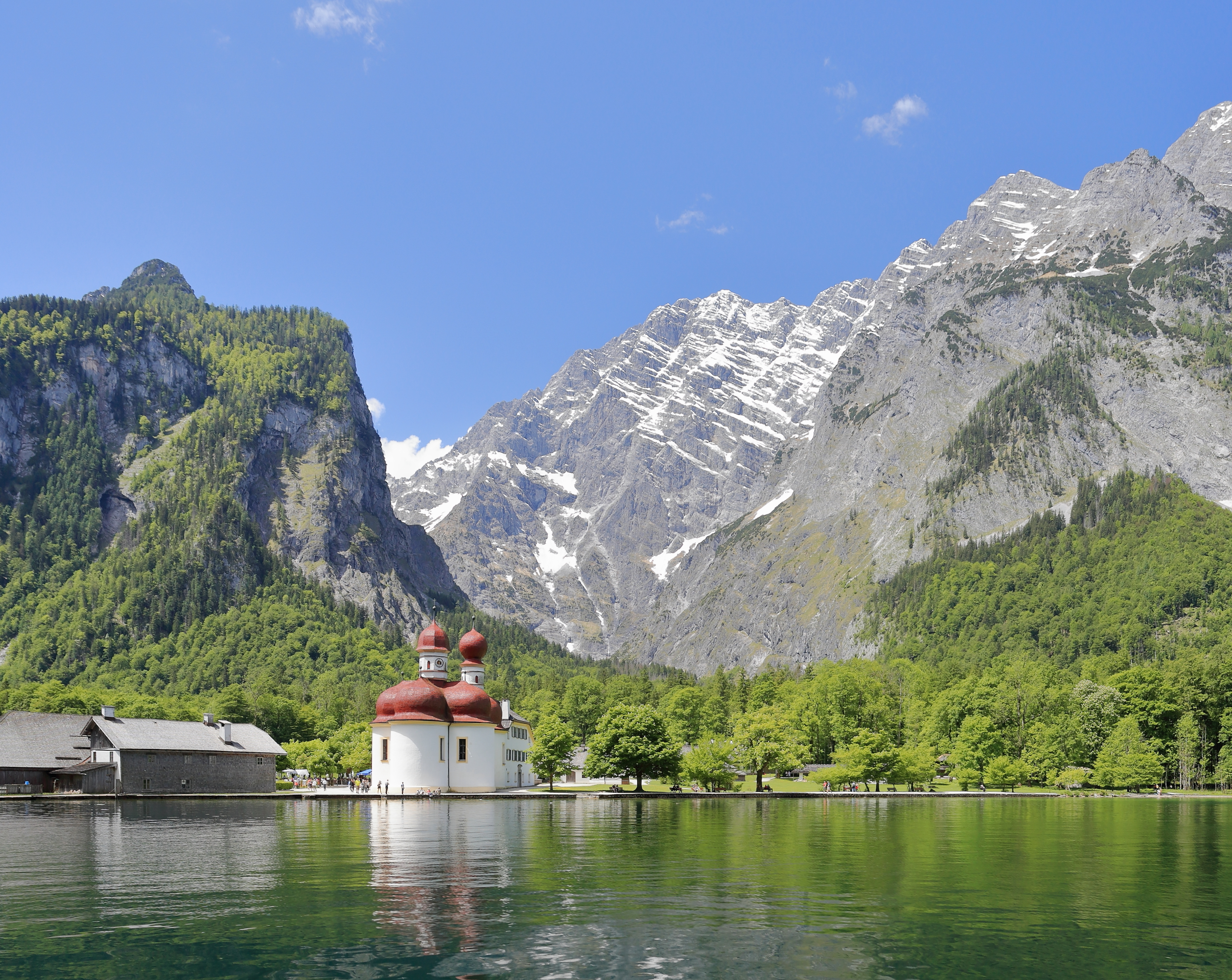 St. Bartholomew's Church (St. Bartholomä), Königssee, and the East Face of Mount Watzmann, Bavaria – part of Berchtesgaden National Park.